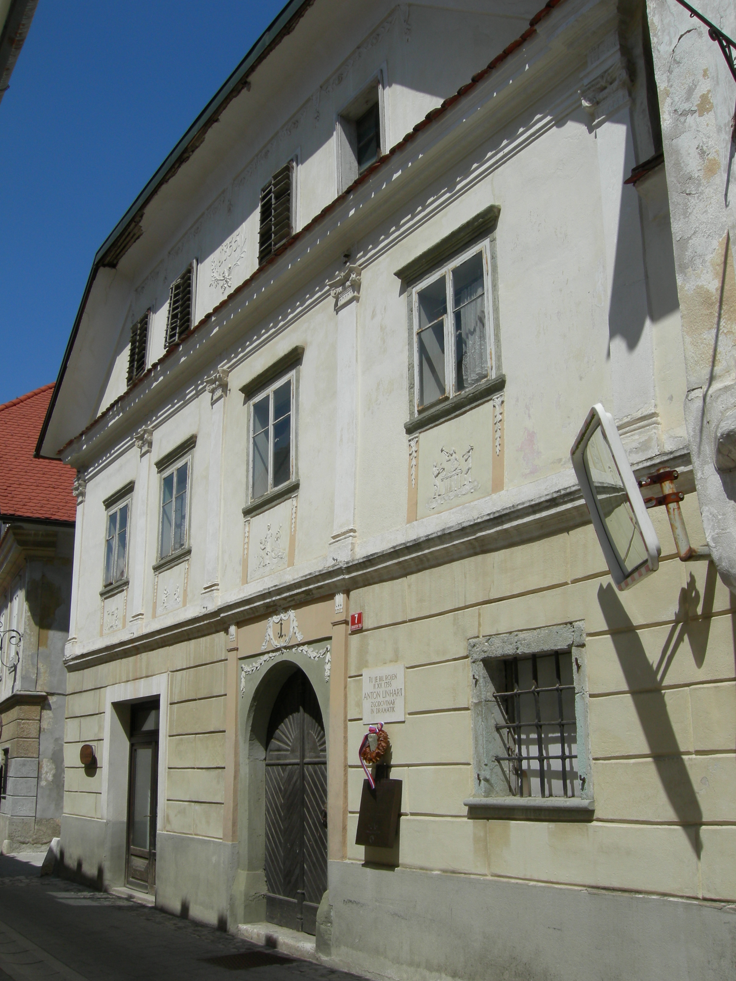 Anton Tomaz Linhart birthplace (Radovljica, Slovenia)